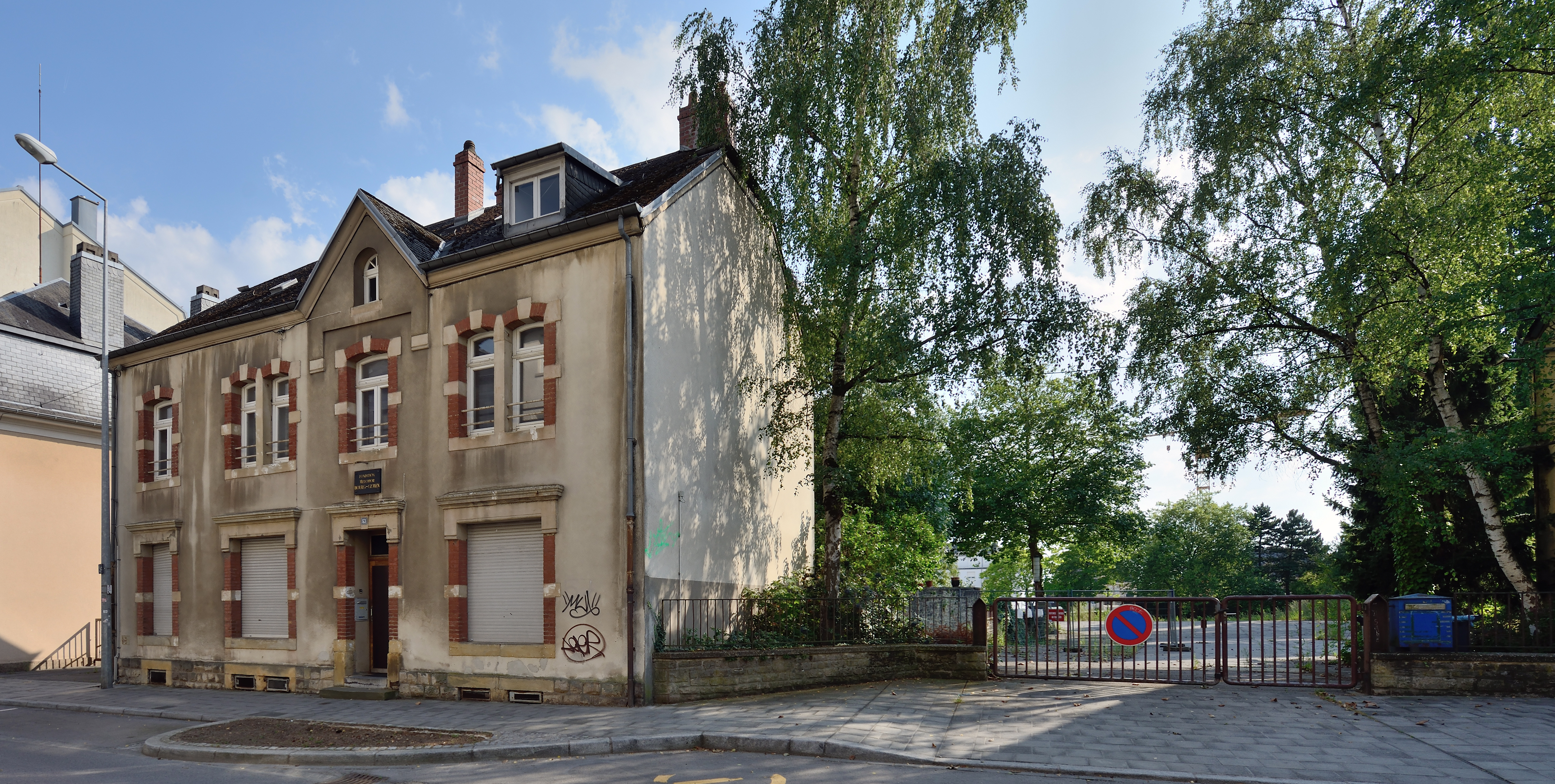 Building in Luxembourg City, avenue Pasteur, Fondation Melchior Bourg-Gemen, destined to be demolished in late 2014.